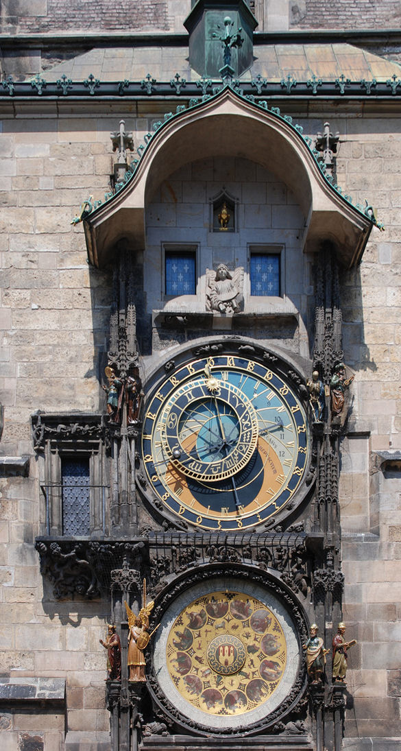 The Prague Astronomical Clock or Prague Orloj (Czech: Pražský orloj, [praʒski: ɔrlɔi]) is a medieval astronomical clock located in Prague, the capital of the Czech Republic. The Orloj is mounted on the southern wall of Old Town City Hall in the Old Town Square and is a popular tourist attraction.